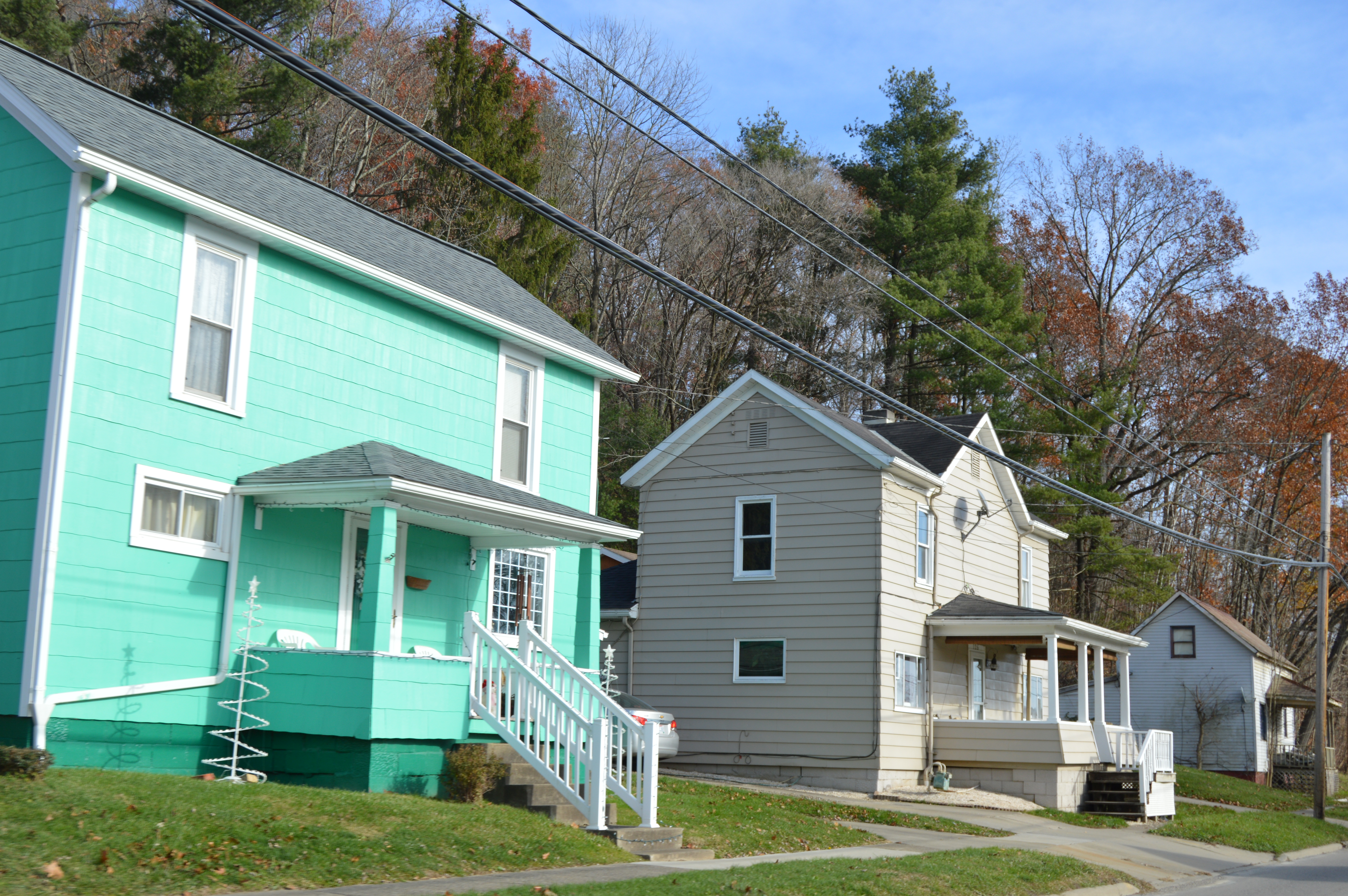 Houses on Main Street (State Route 821) east of Walnut Street in Belle Valley, Ohio, United States.